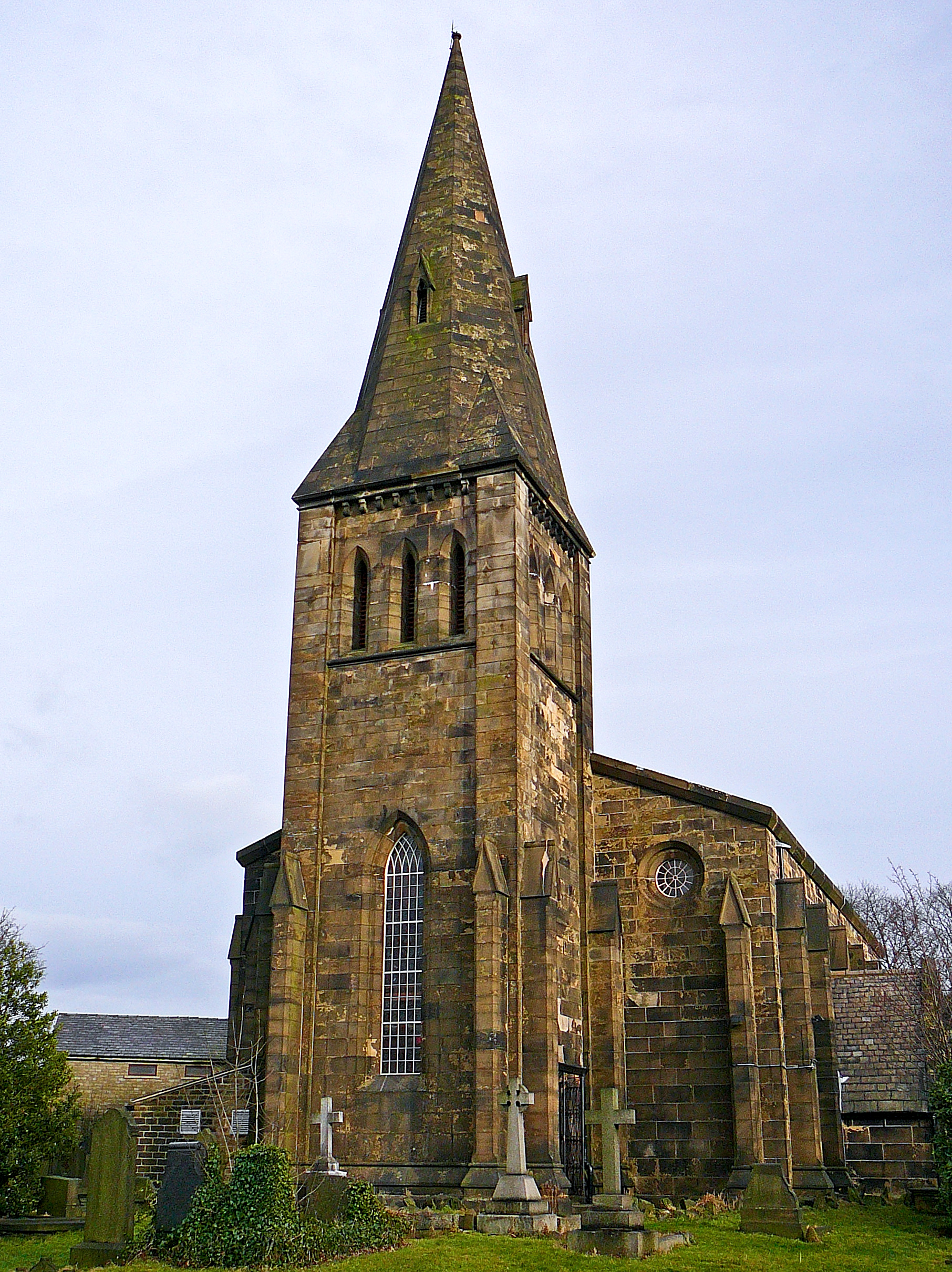 Christ Church parish church, Linthwaite, West Yorkshire, seeon from the southwest